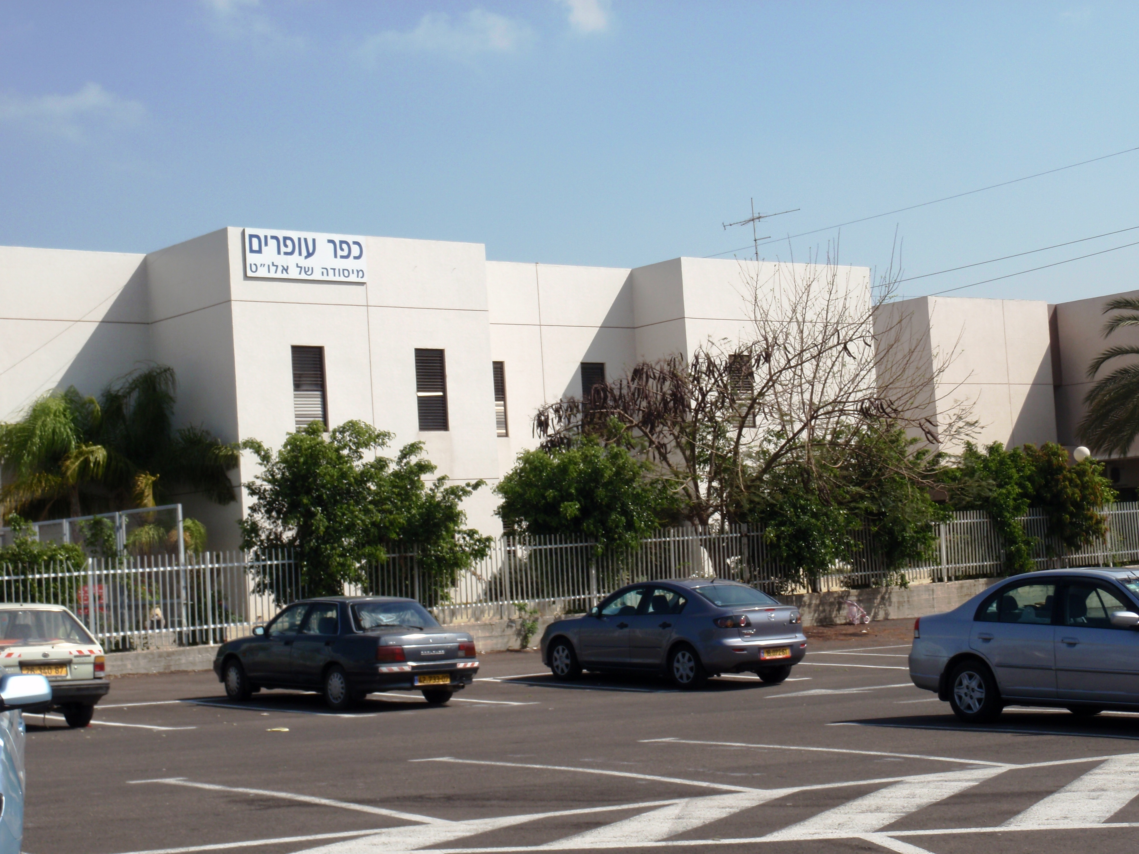 כפר עופרים Kfar Ofarim Autistic assisted living Kfar Ofarim